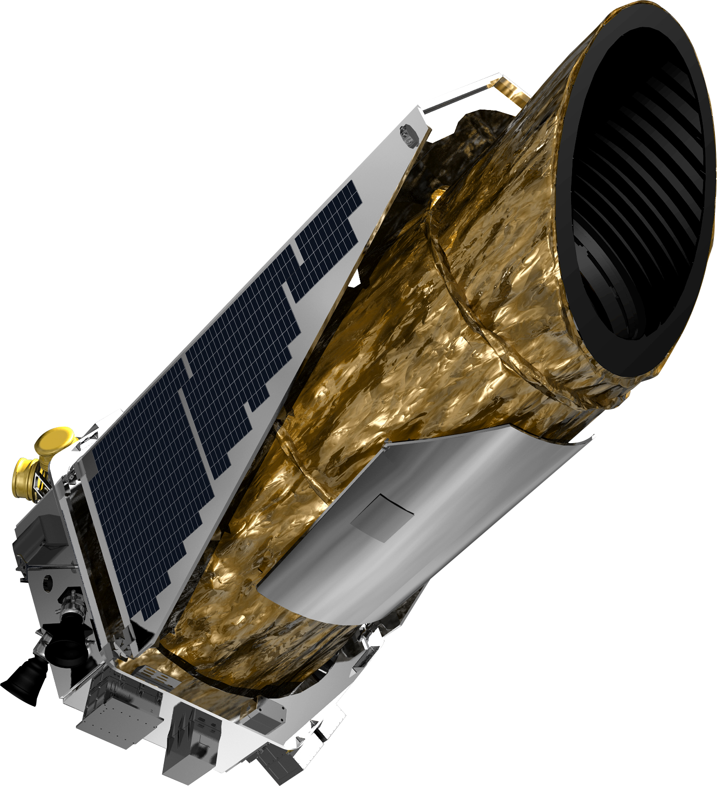 Illustration of the Kepler Space Telescope on a transparent background.